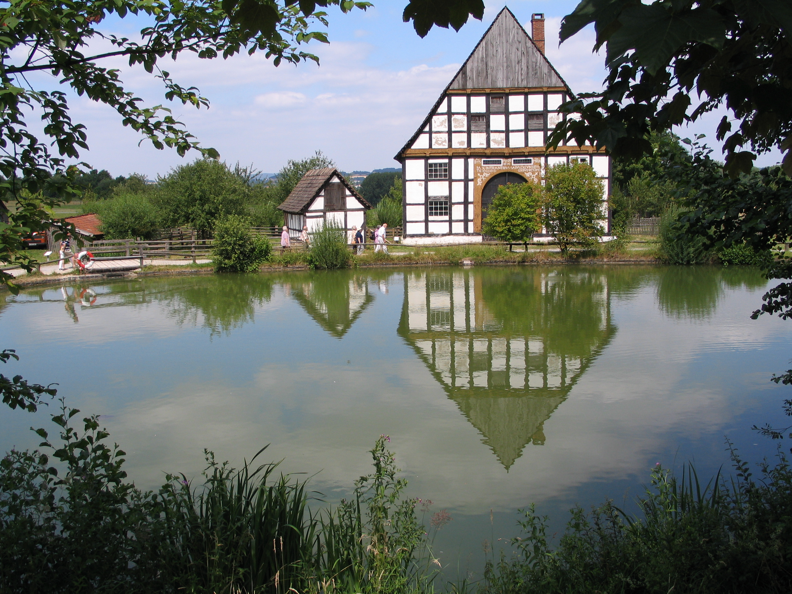 Historic farmhouse in the “Open-air Museum of Westphalia” in Detmold, Lippe District, North Rhine-Westphalia, Germany.